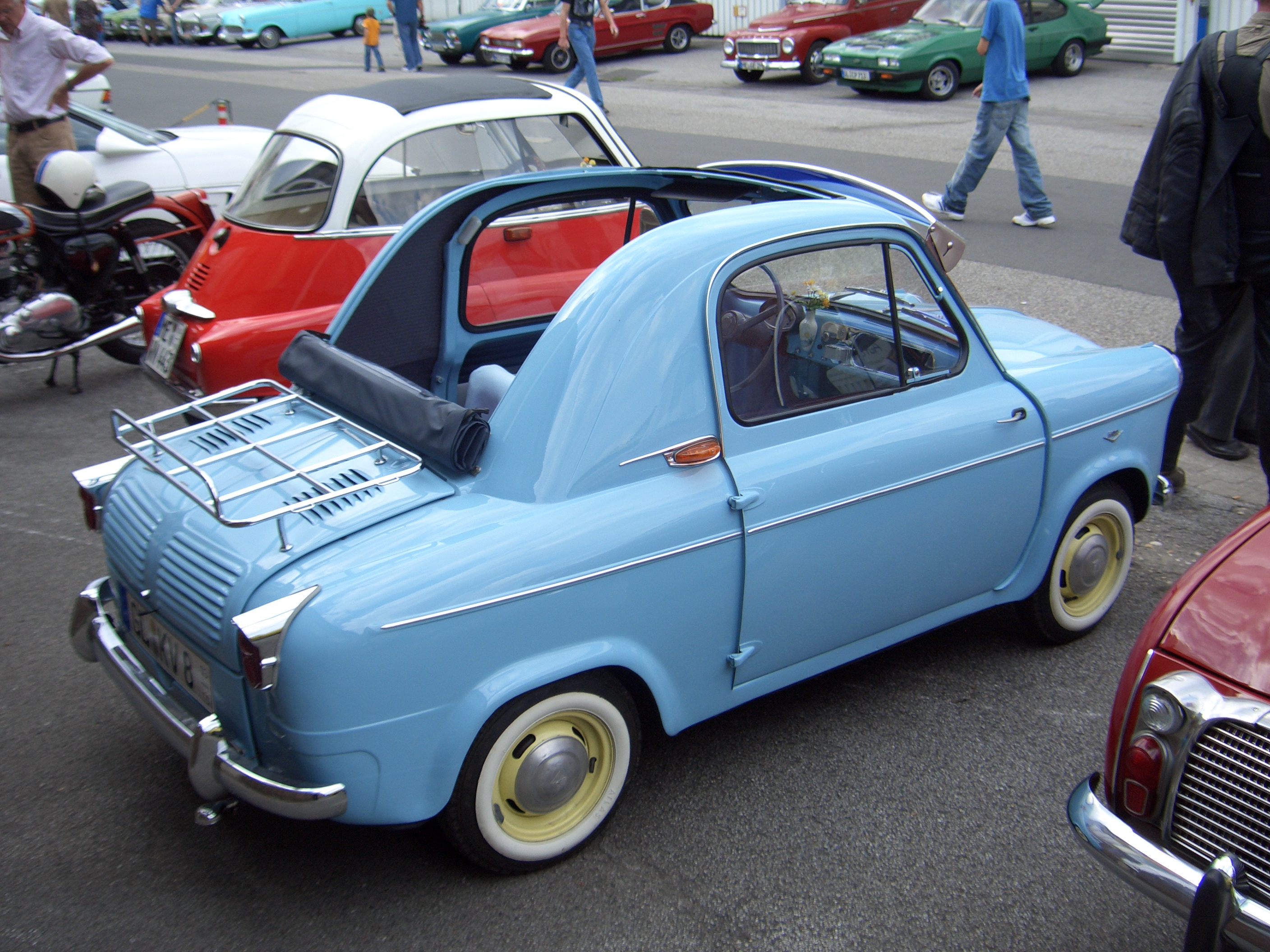 Piaggio Vespa 400, 1957-1961, seen at vintage car meeting in Leverkusen, Germany, August 2008